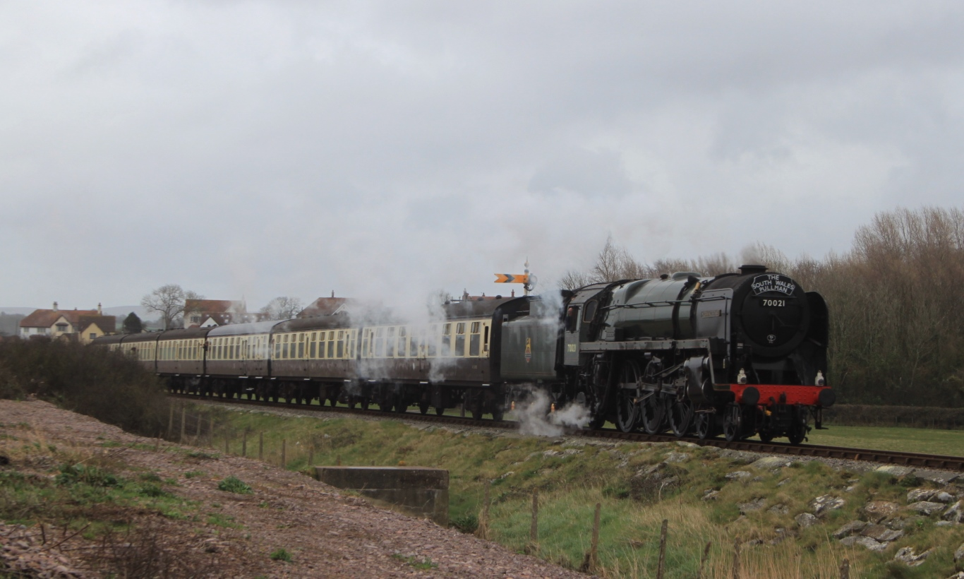 70000 Britannia leaves a wet Blue Anchor behind as it pretends to be 70021 Morning Star with the South Wales Pullman during the 2015 Spring Gala on the West Somerset Railway, but its destination today is Minehead which is on the wrong side of the Severn estuary.